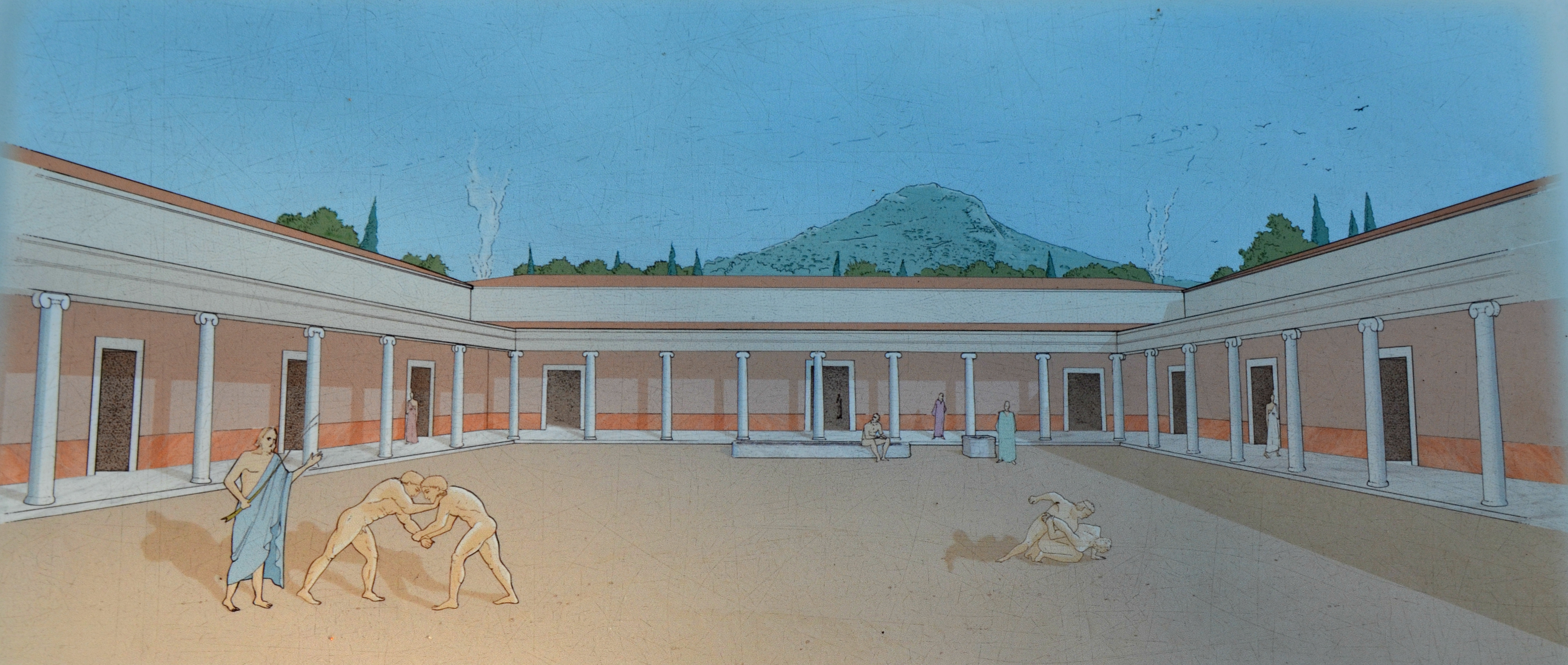 During a 1996 excavation to clear space for Athens’ new Museum of Modern Art, the remains of Aristotle’s Lyceum were uncovered. Descriptions from the works of ancient philosophers hint at the location of the grounds, speculated to be somewhere just outside the eastern boundary of ancient Athens, near the rivers Ilissos and Eridanos, and close to Lycabettus Hill. The excavation site is located in downtown Athens, by the junction of Rigillis and Vasilissis Sofias Streets, next to the Athens War Museum and the National Conservatory. The first excavations revealed a gymnasium and wrestling area, but further work has uncovered the majority of what is believed to have withstood the erosion caused to the region by nearby architecture’s placement and drainage. The buildings are definitely those of the original Lyceum, as their foundations lie on the bedrock and there are no other strata further below. Upon realizing the magnitude of the discovery, contingency plans were made for a nearby construction of the Art Museum so that it could be combined with a Lyceum outdoor museum and give visitors easy access to both. There are plans for canopies to be placed over the Lyceum remains, and the area was opened to the public in 2009. (Classical)#Aristotle's_Lyceum_today